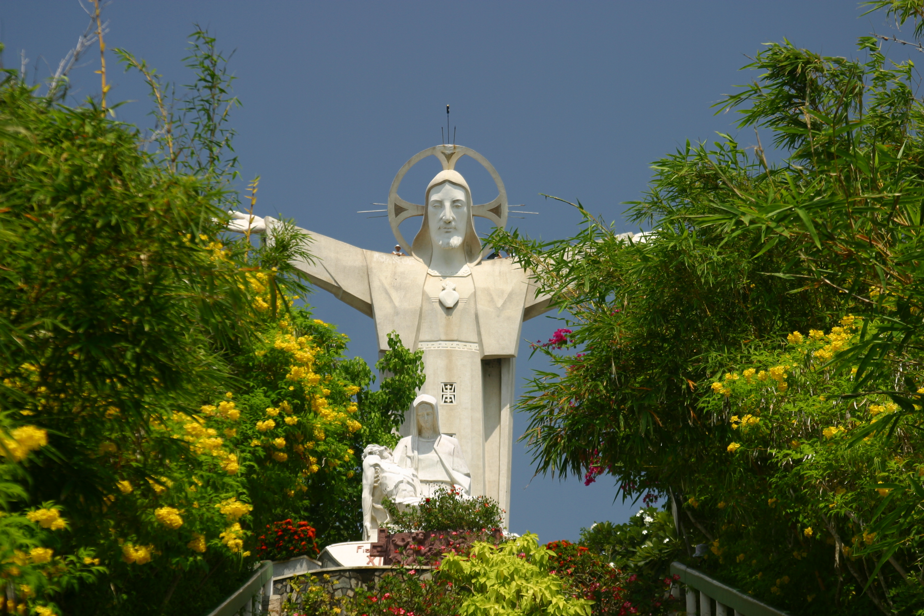 Statue of Jesus in Vung Tau